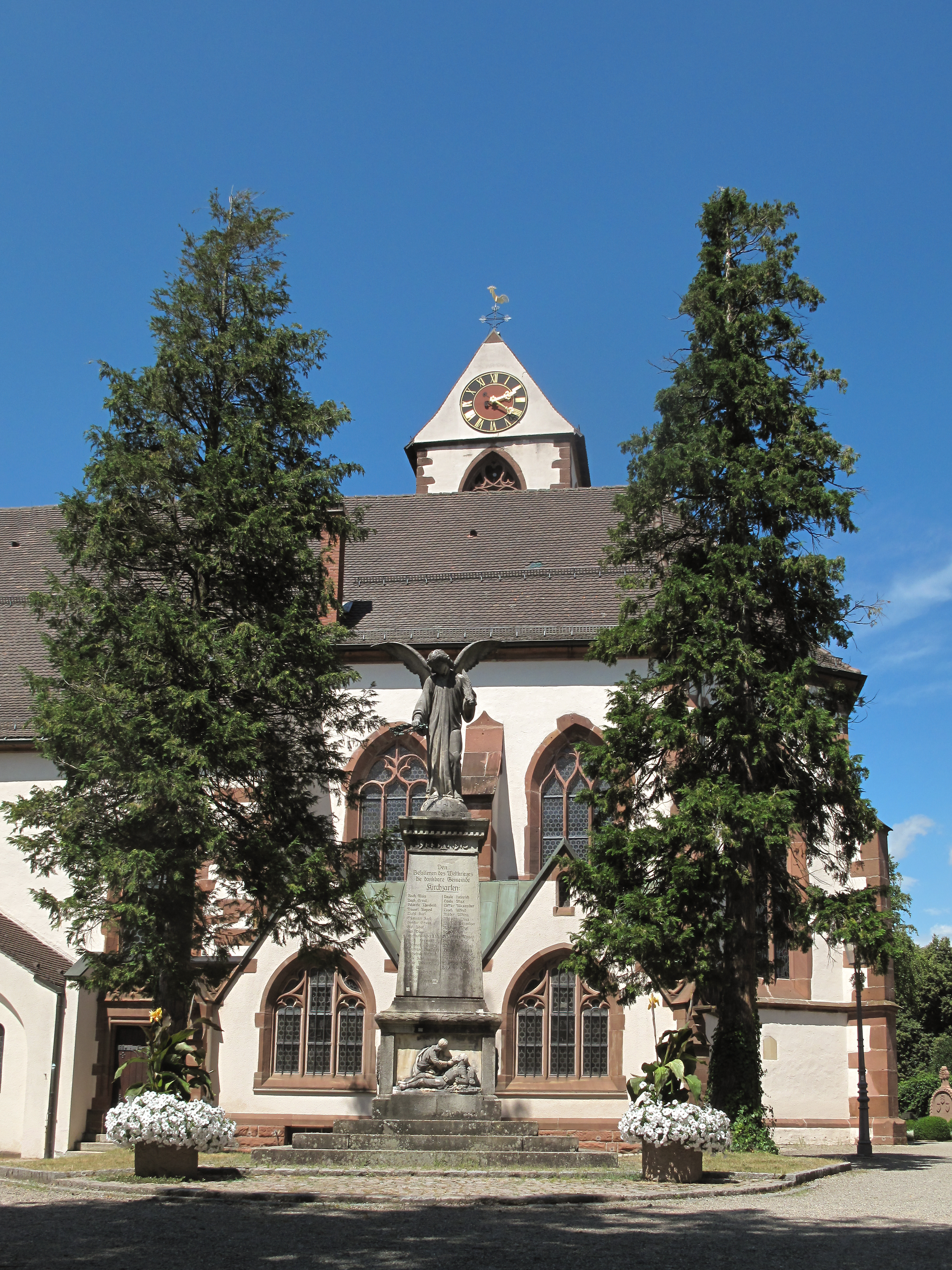 Kirchzarten, St.-Gallus-Church and the War-Memorial 1914-18